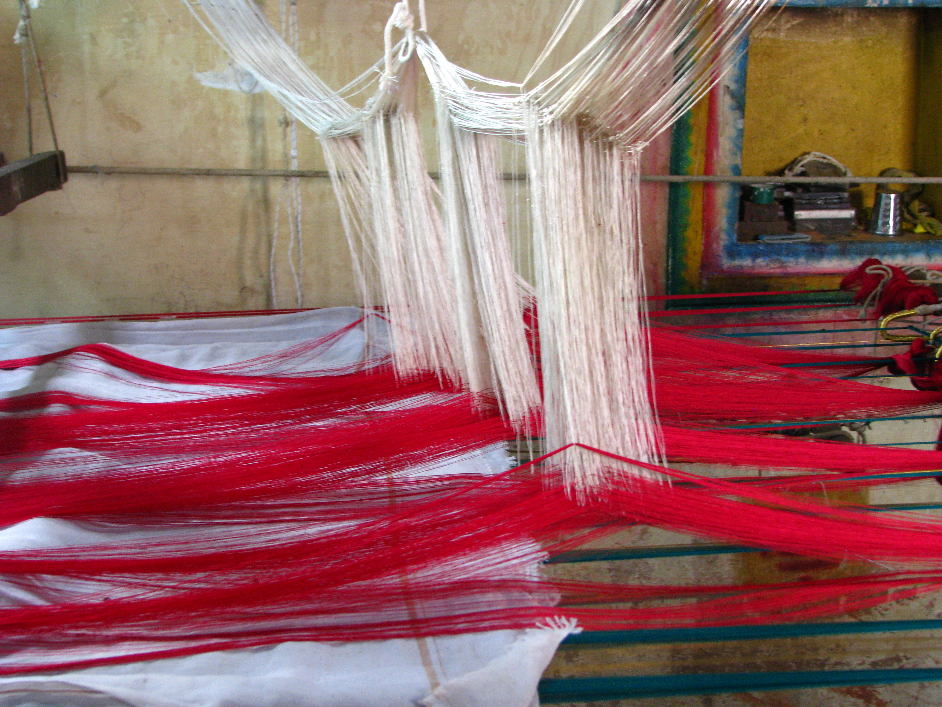 Brilliantly coloured silk threads on a hand-loom being woven into a fancy sari. Kanchipuram is famous in India as producers of exquisite and much sought after saris, especially for weddings, many with elaborate borders, heavy embroidery and embellishment work and gold threads. While the sale price of such a sari can range from INR 5,000 to 100,000 or more and take weeks to make, most artisans still work as piece-work labourers (the buyer supplies all materials), making INR 300 to INR 1,000 a piece. Historically, child labour and bonded labour (where the buyer supplies upfront loan, maintaining the family in a perpetual state of debt), were also common in this industry, but that is slowly improving due to government regulations and significant work by NGOs and artisan collectives in the region.